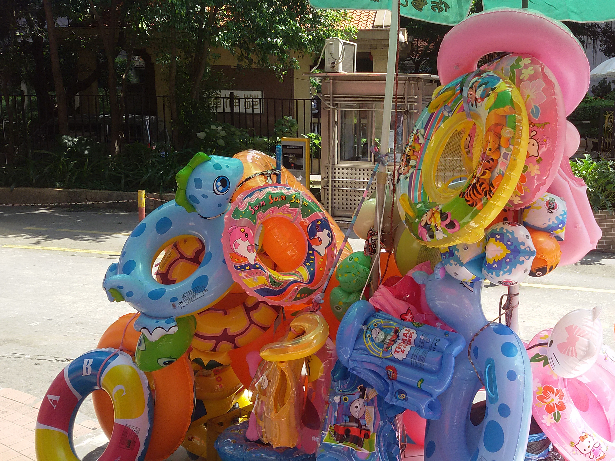 swim rings